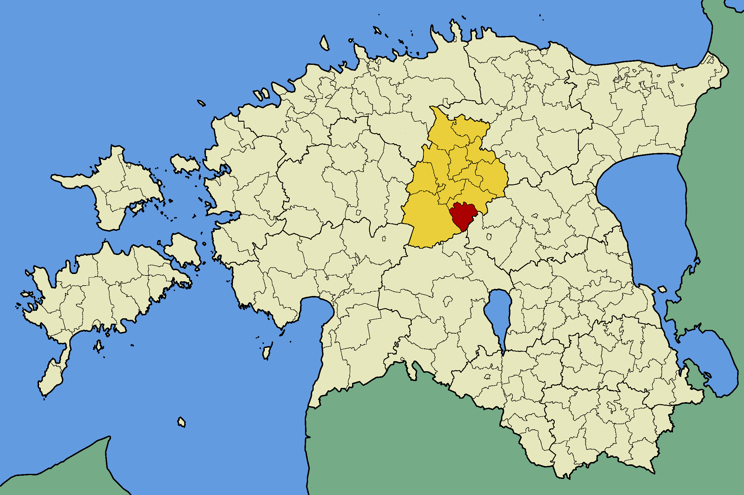 Map of Estonia with borders of municipalities (parishes). Järva county and Imavere municipality emphasized.